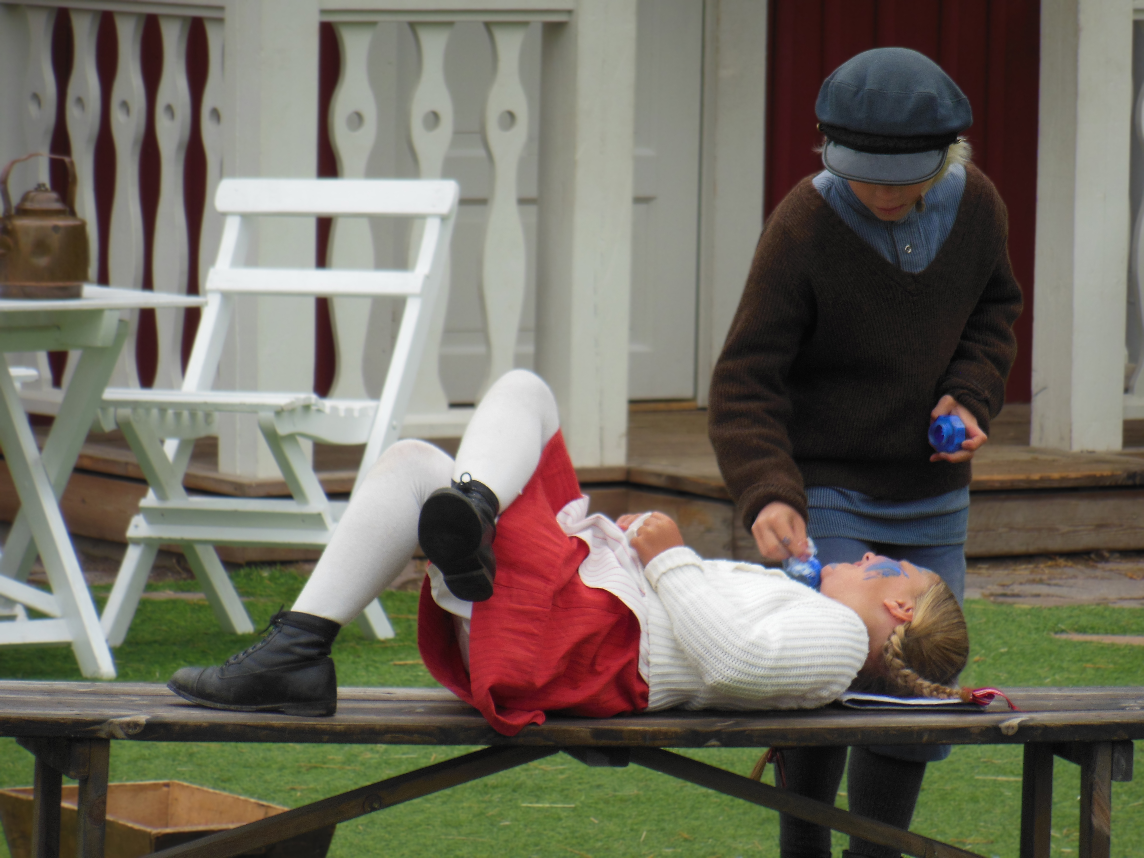 Emil and Ida at Astrid Lindgrens Värld, Vimmerby 2014. Emil is painting his sisters face blue.